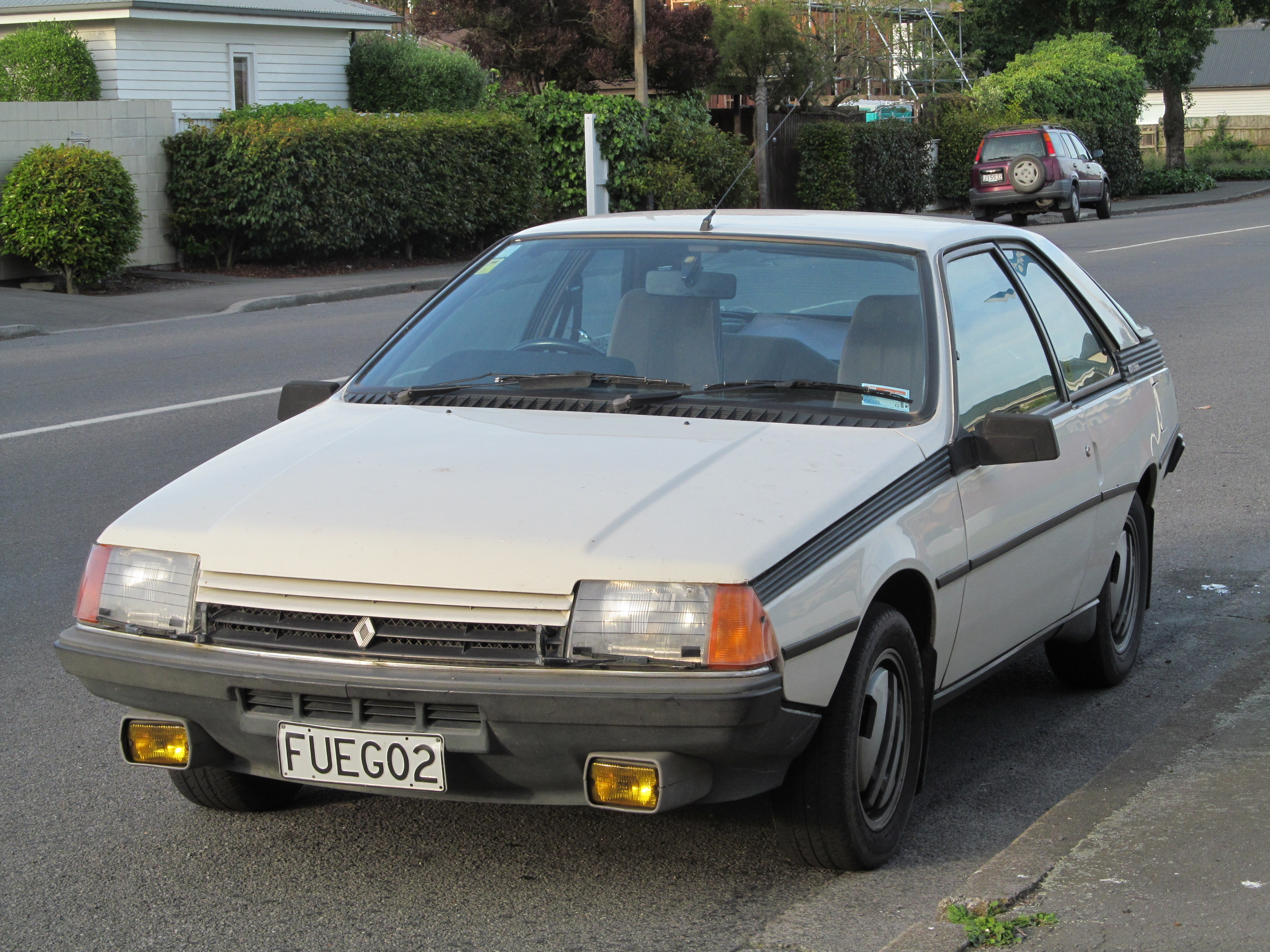 The fourth Fuego I've seen this year! This one looked great in the late spring evening light, without any traffic or people around. A very late European Fuego as well (they were built in Argentina until 1995).